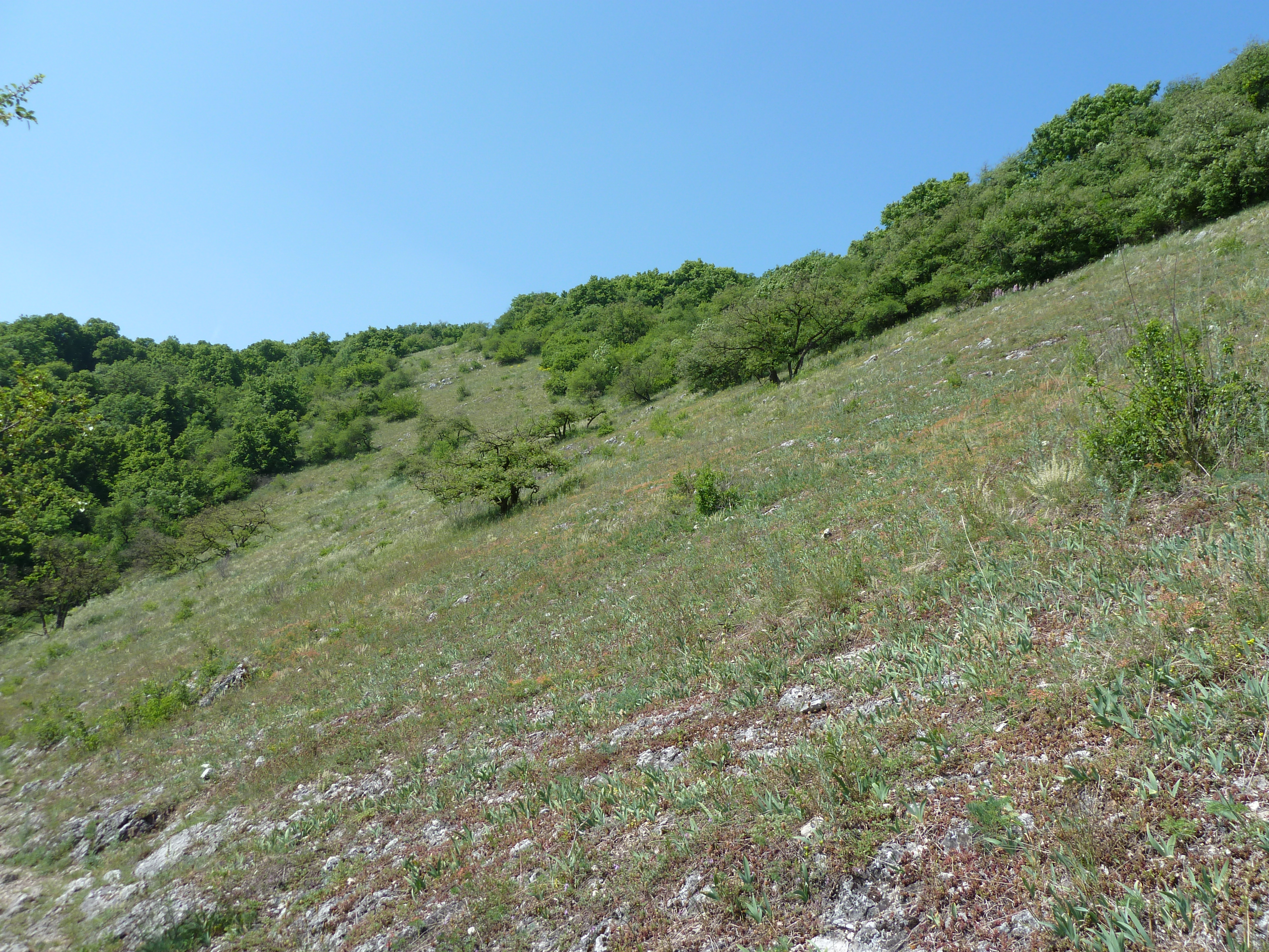 Typical rocky steppe in NNR Děvín - Kotel - Soutěska (south Moravia, Czech Republic)